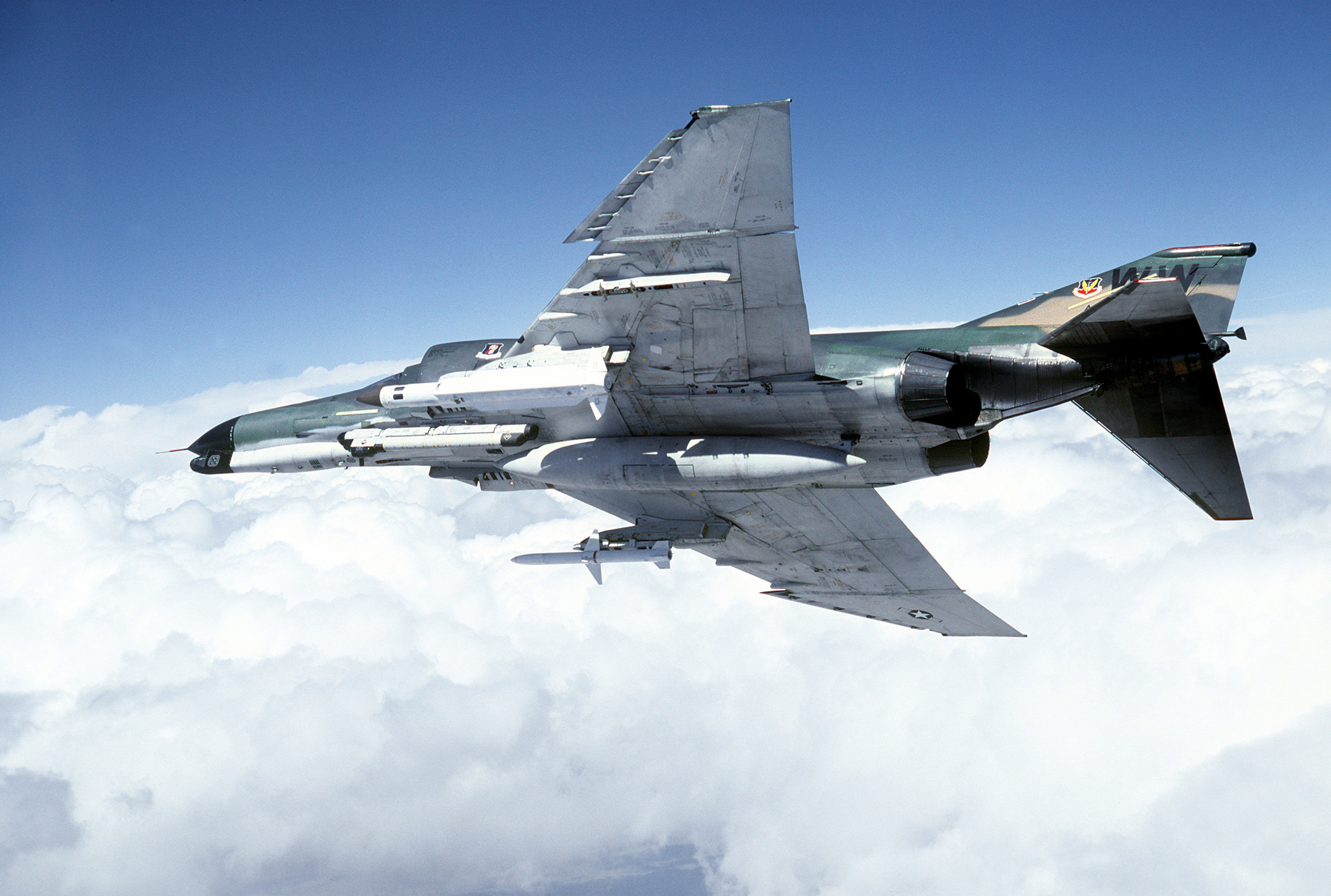 An F-4G Phantom II Wild Weasel aircraft banks to the right over a range. The F-4G carries one AGM-78 Standard anti-radiation missile (ARM) on its left wing, an AGM-45 Shrike ARM on the right wing, and an ALQ-119 electronic countermeasures pod on the left side of the fuselage and an auxiliary fuel tank on the centerline. The aircraft belongs to the 563rd Tactical Fighter Squadron, 35th Tactical Fighter Wing. Location: NELLIS AIR FORCE BASE, NEVADA (NV) UNITED STATES OF AMERICA (USA)